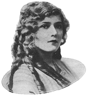 Mary Pickford in a portrait made specially for the Broadway play The Warrens of Virginia.